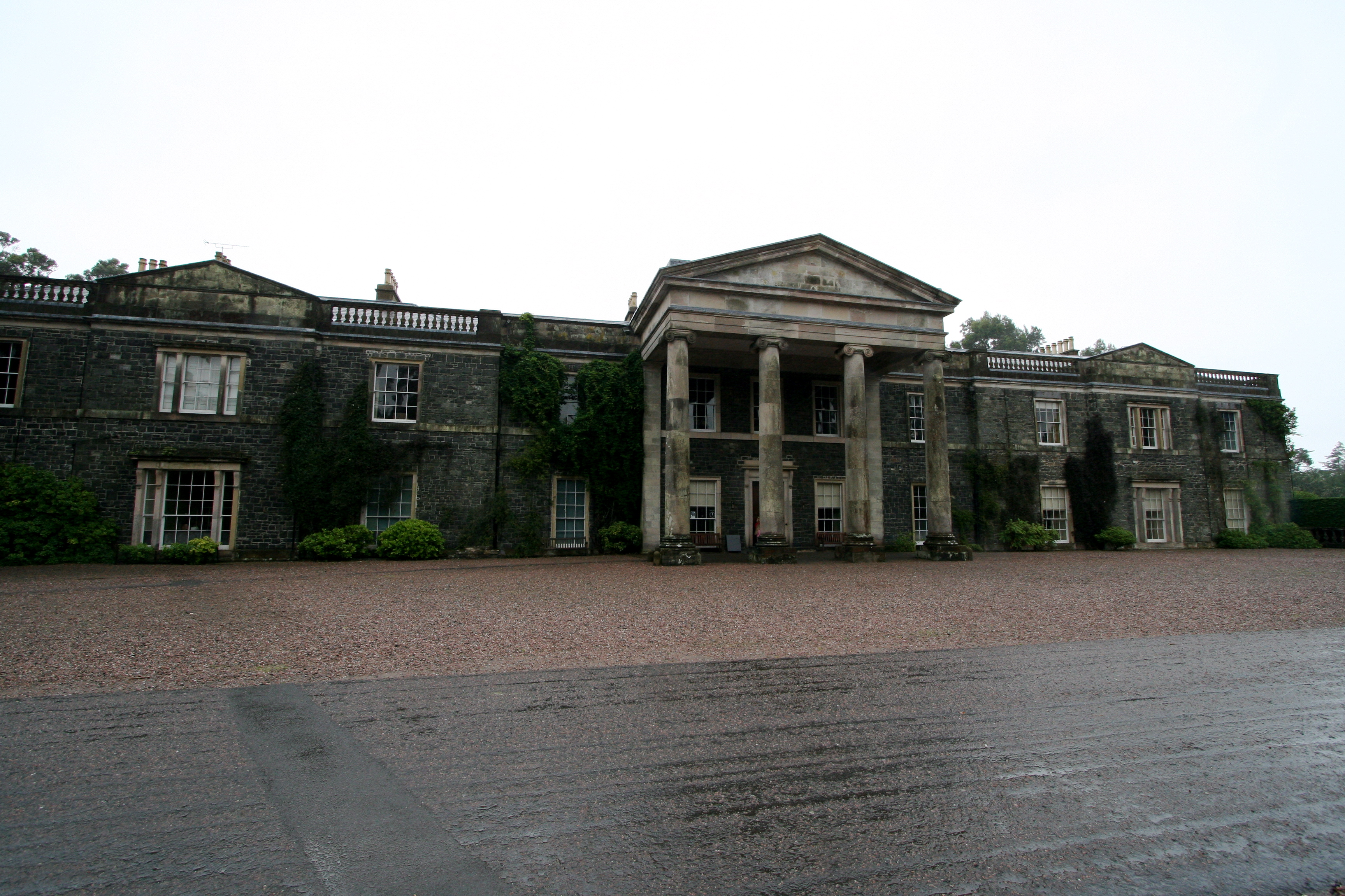 Palladian neoclassical facade of Mount Stewart, North Ireland, County Down